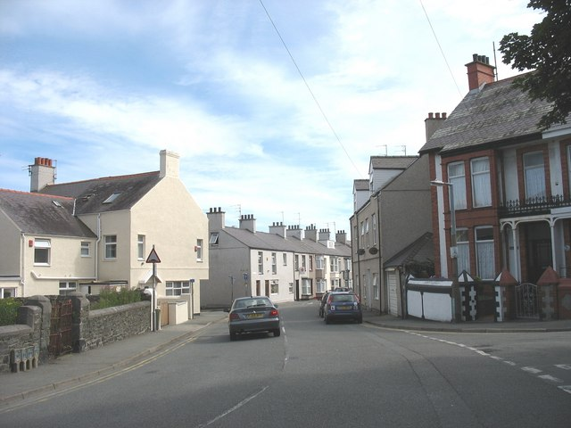 The junctions of Longford, Plas and Maes Hyfryd roads